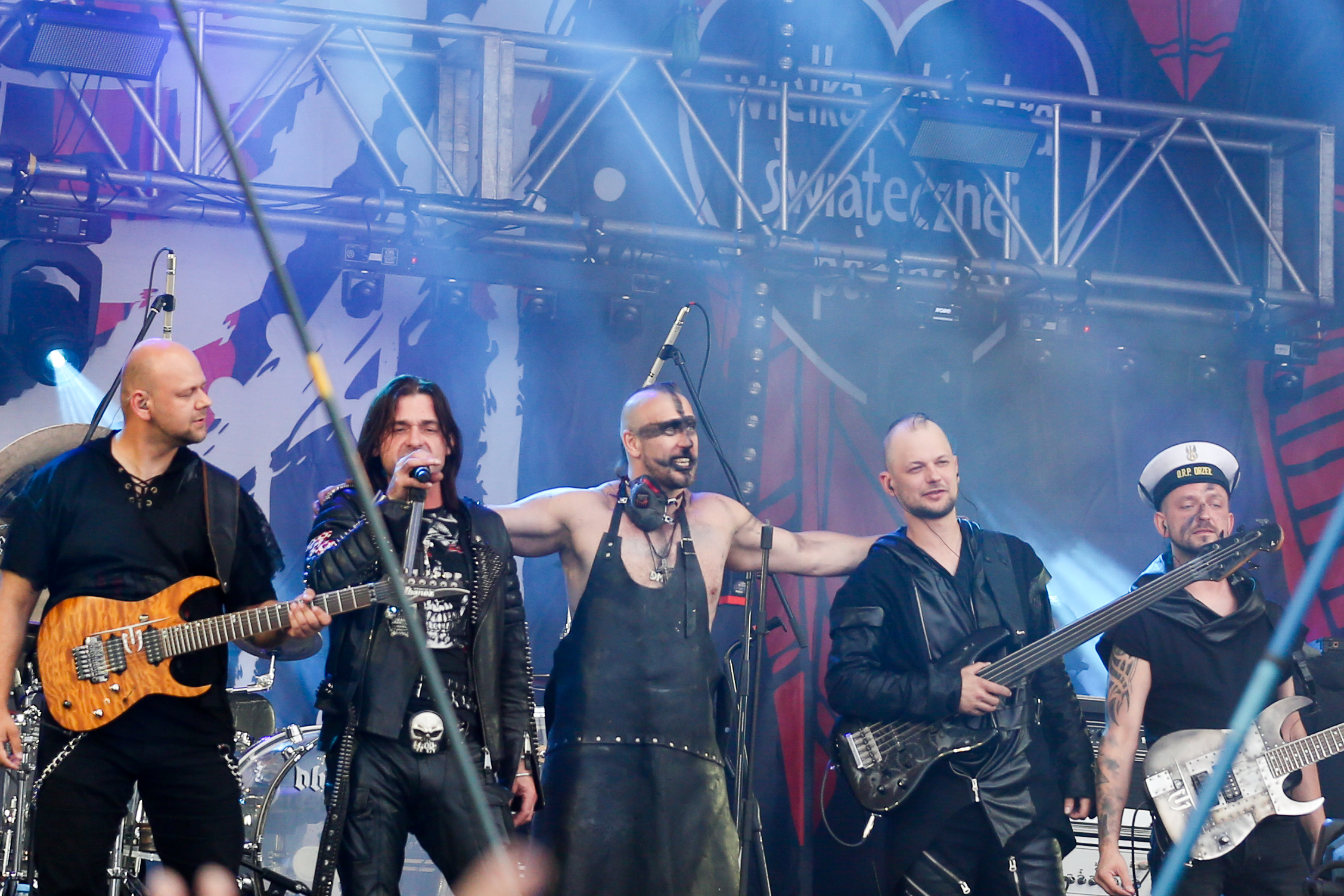 Przystanek Woodstock in 2016.